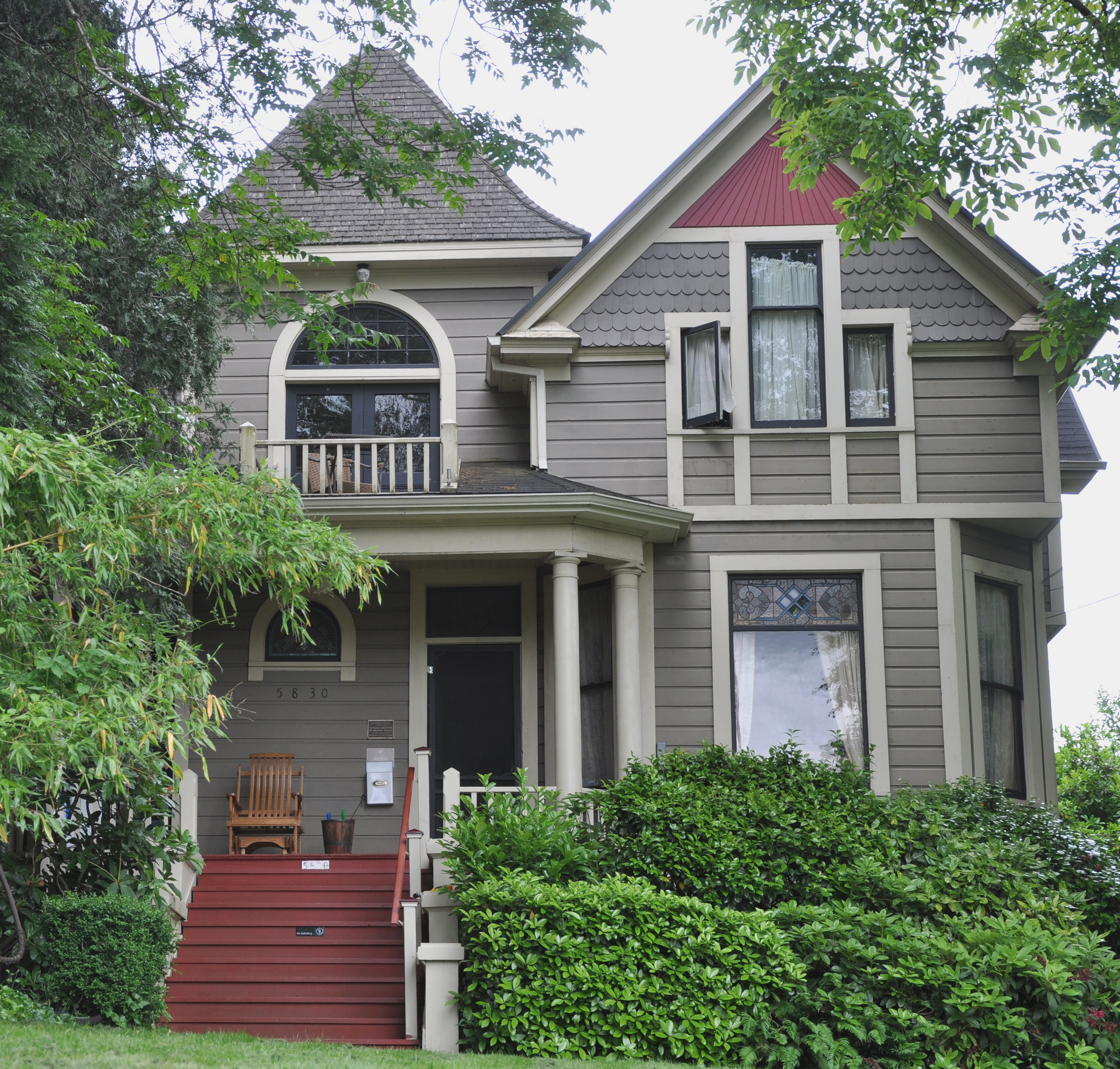 Herman Vetter House in Portland in the U.S. state of Oregon. The structure is listed on the National Register of Historic Places.